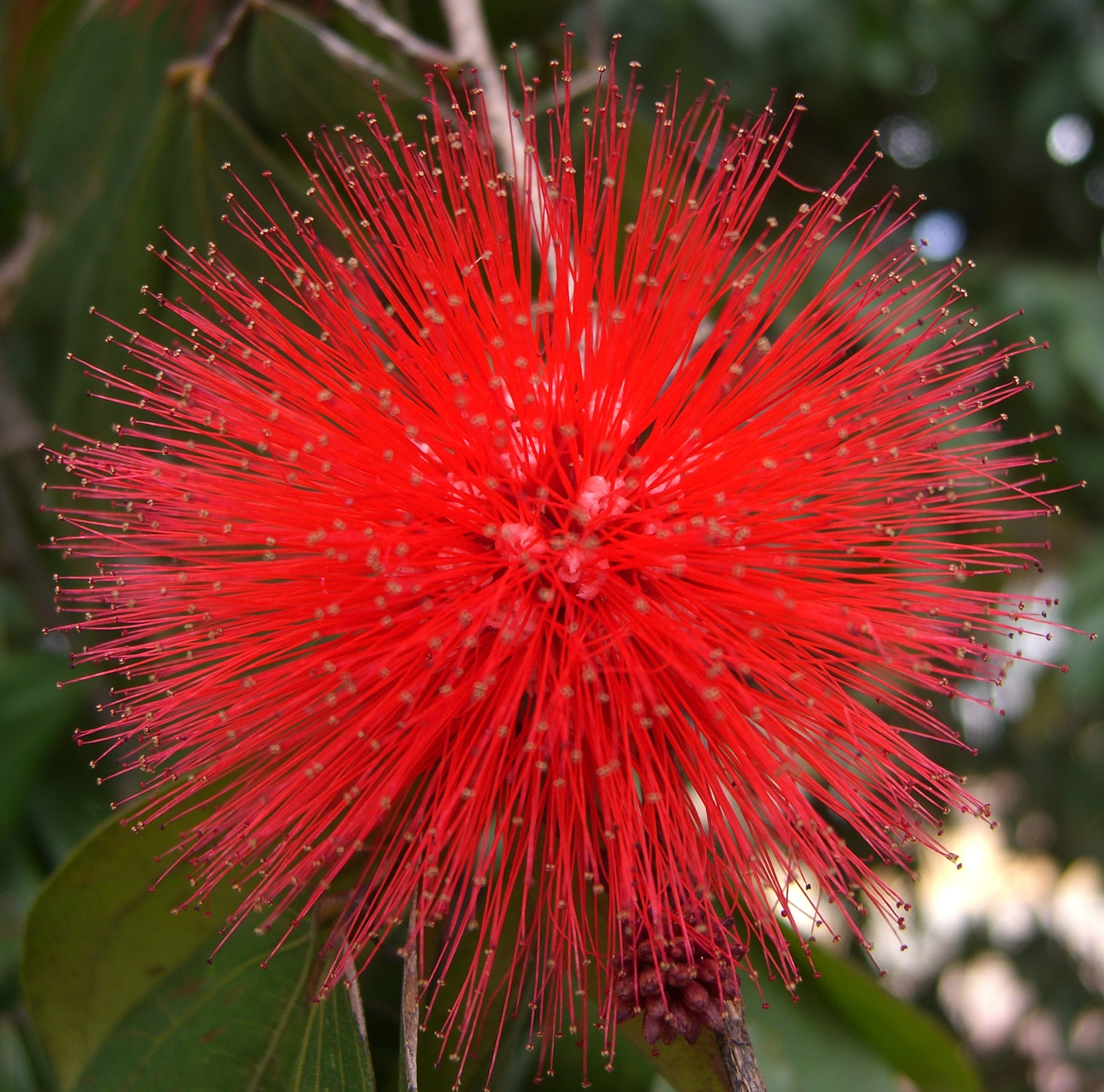 Please report references to .